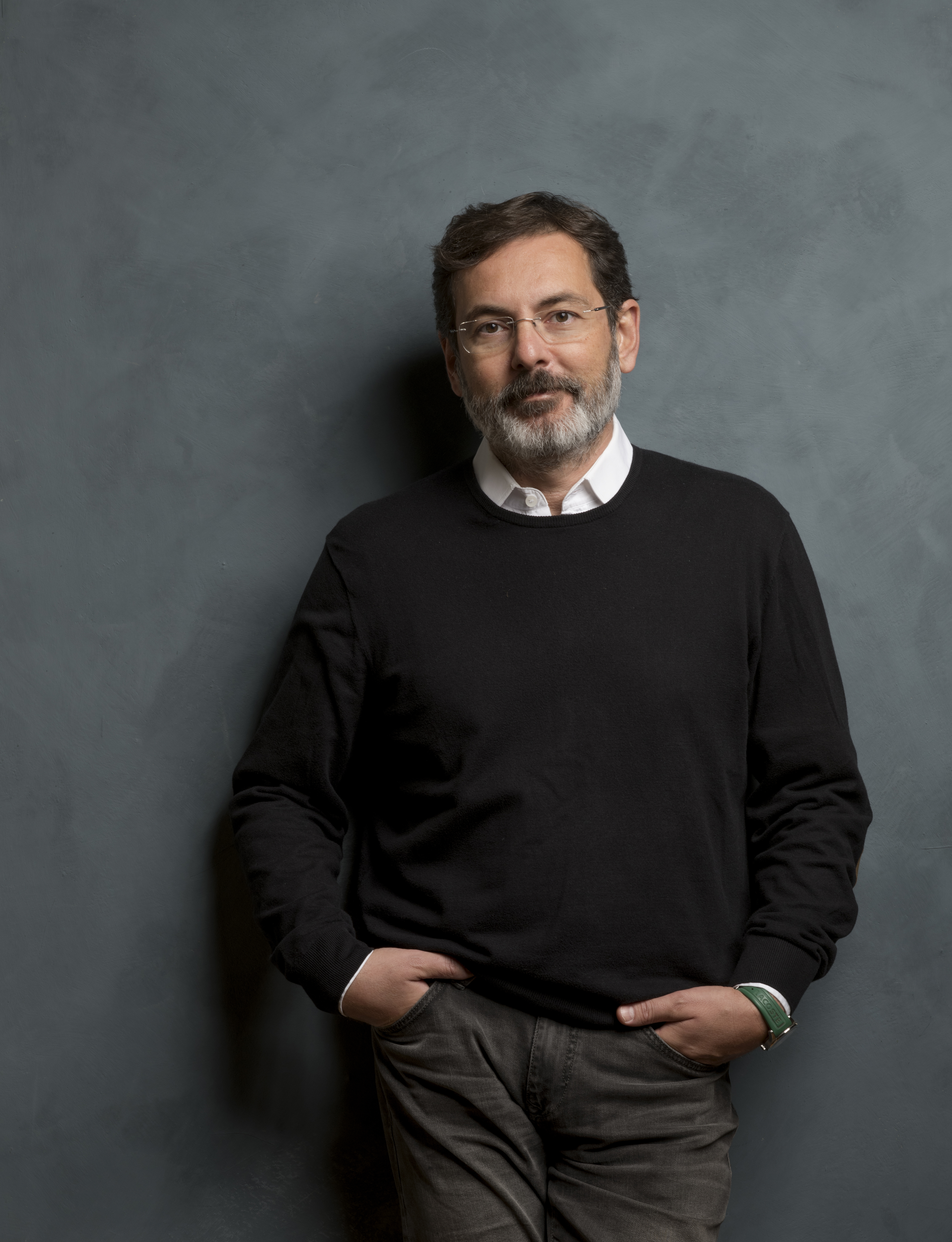 MURAT GULSOY / Published in: HURRIYET KITAP SANAT / Photographer: MUHSIN AKGUN